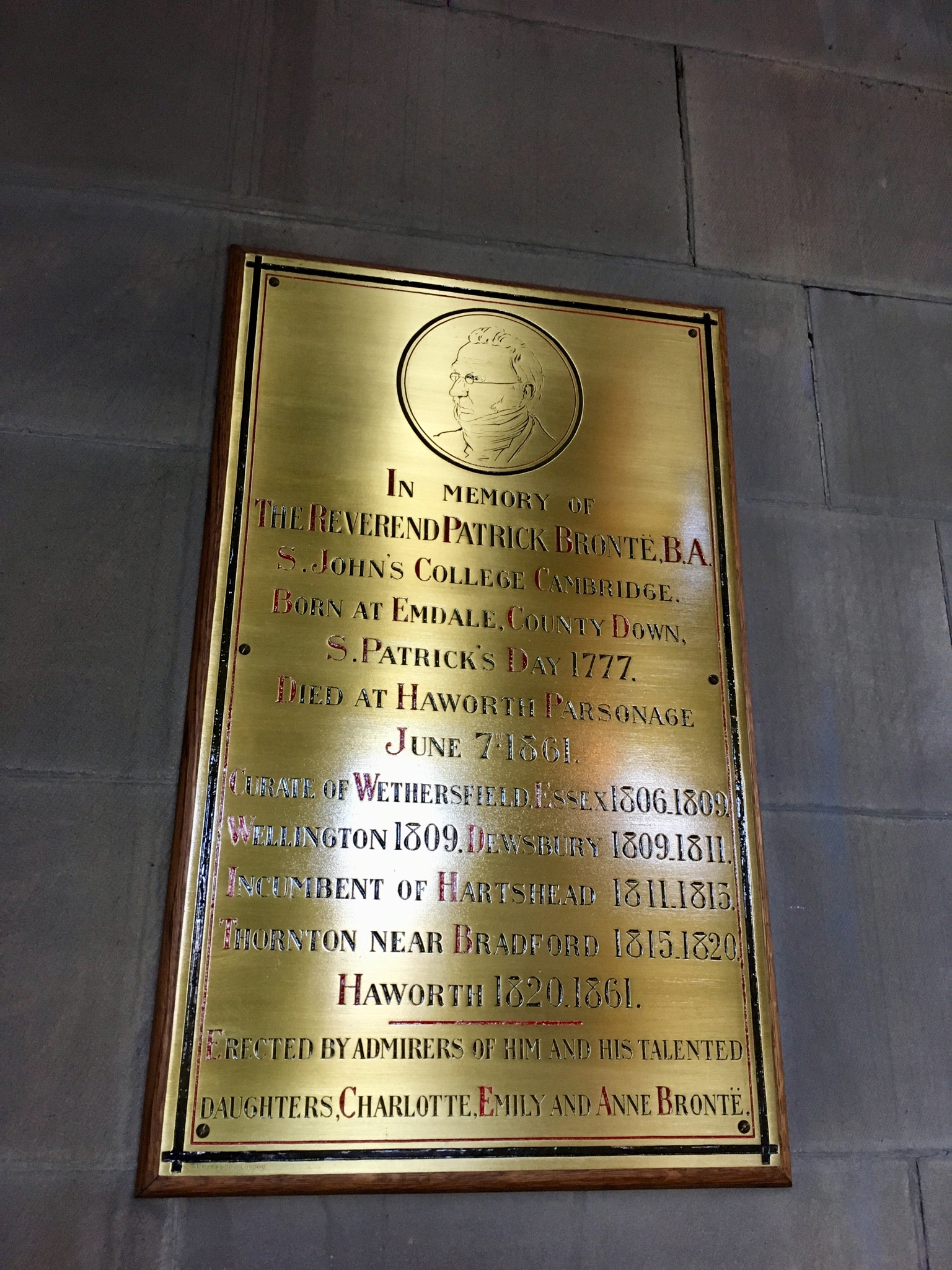 Dewsbury Minster Wikidata has entry Q17547909 with data related to this item.